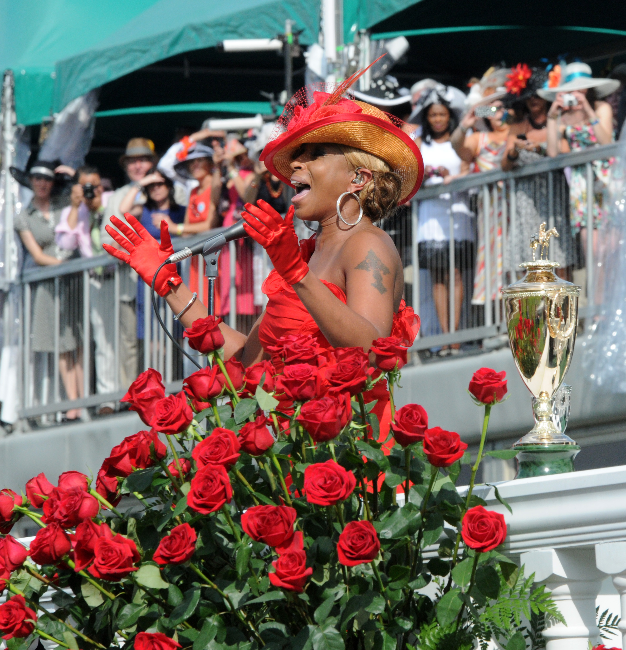 Vocal artist Mary J. Blige sings the National Anthem at the 2012 Kentucky Derby held at Churchill Downs in Louisville, Ky. May 5. (Photo by: Spc. David Bolton, Public Affairs Specialist, 133rd Mobile Public Affairs Detachment, Kentucky Army National Guard).